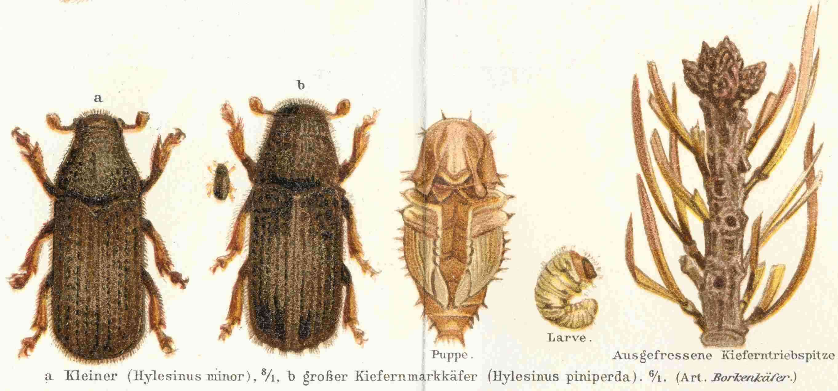 Tomicus piniperda and Tomicus minor, formerly known as Hylesinus minor and Hylesinus piniperda